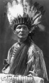 Charles Eastman (Ohiyesa) Other information No.